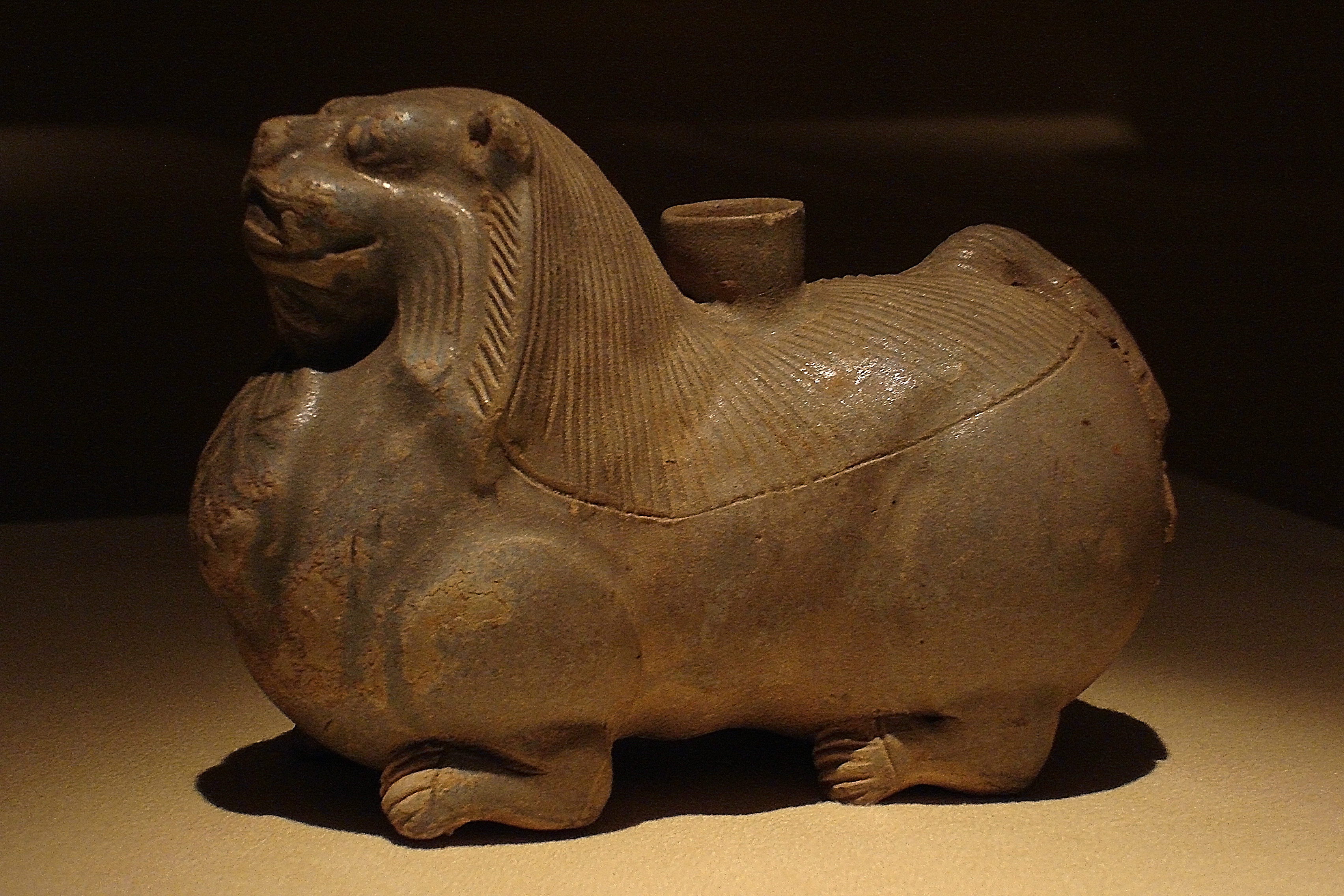 Celadon candle holder Three Kingdoms Period (A.D. 220 - 280) Excavated at Nanjing, Jiangsu Province, 1958 In the form of a crouching lion, this candle holder features a small round column in the centre to hold a candle; it is an art object designed for practical use. When buried with the dead it was believed to bring light to the tomb; it may also have been used as a water pot, or a vessel for dispelling evil.